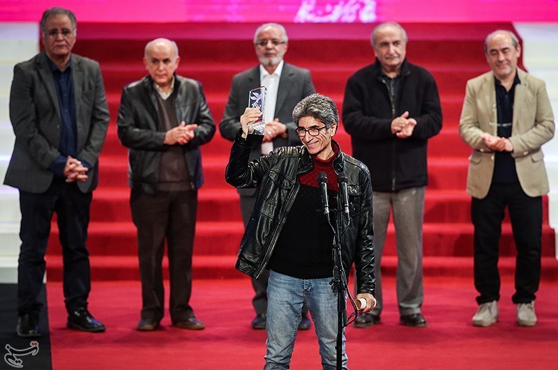 Reza Maghsoodi